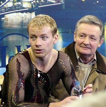 Ilia Klimkin and Viktor Kudriavtsev at the 2004 European Figure Skating Championships